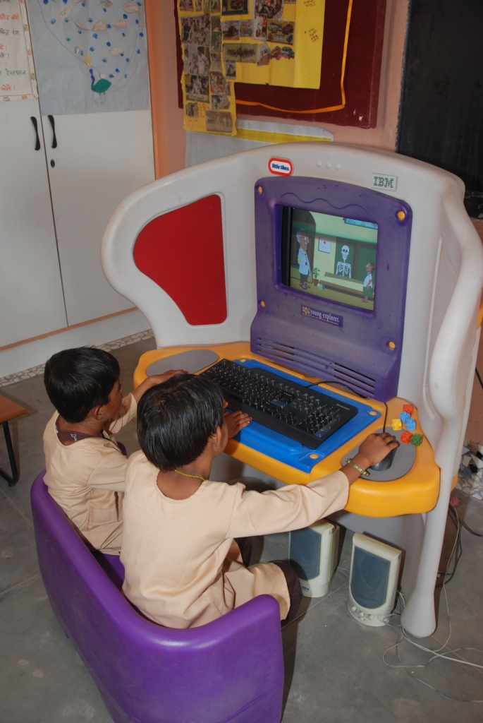 This picture has been taken at the Satya Bharti School. It shows the education system and children's life at the school.